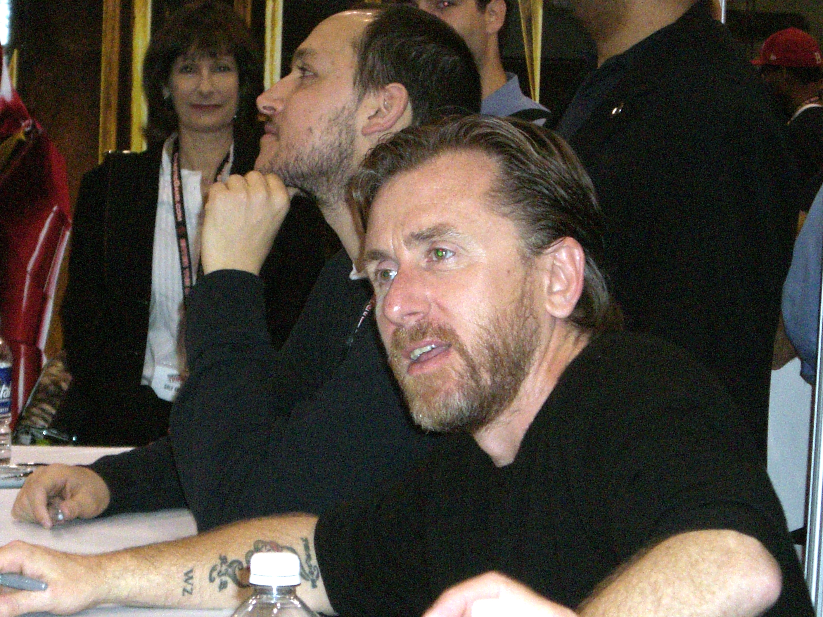 Tim Roth (Emil Blonsky in "The Incredible Hulk") at the Marvel booth signing